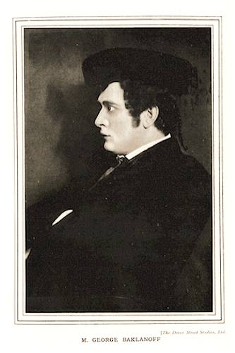 Portrait of Russian opera singer Georgy Baklanov as Escamillo